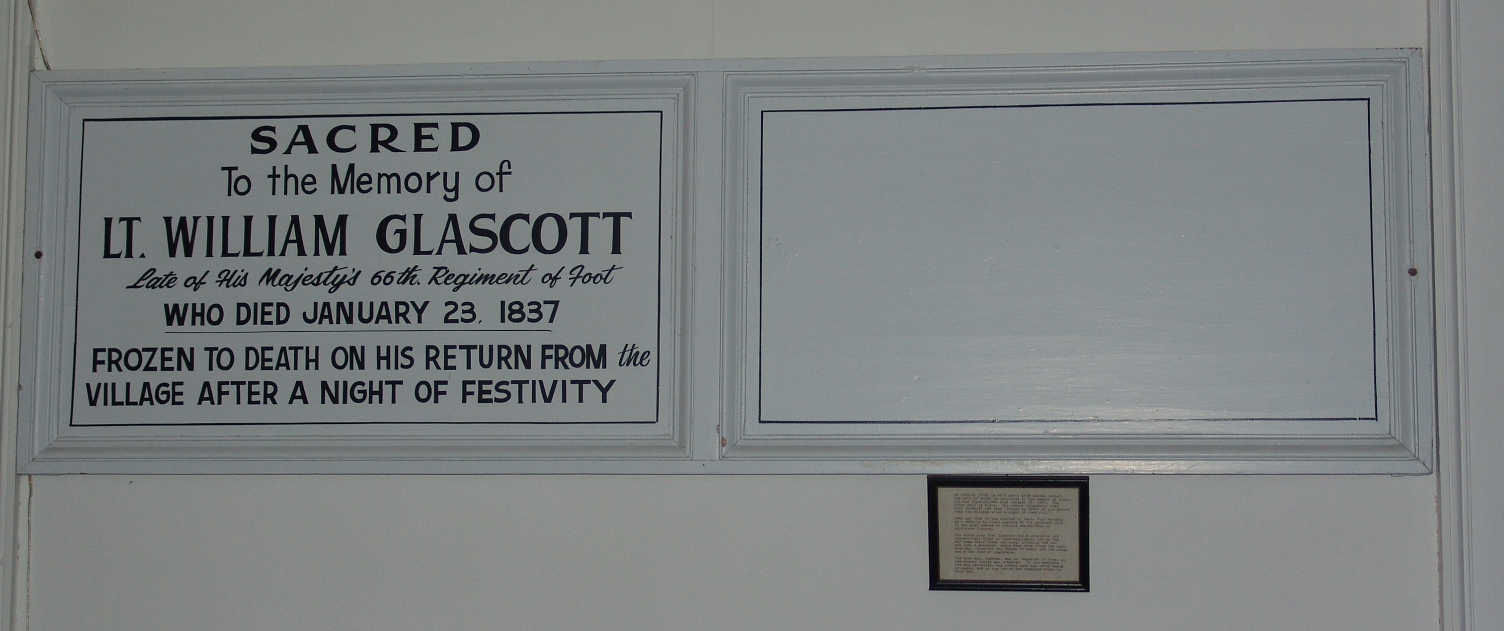 Wooden memorial plaque in St James-On-the-Lines church in Penetanguishene, Ontario